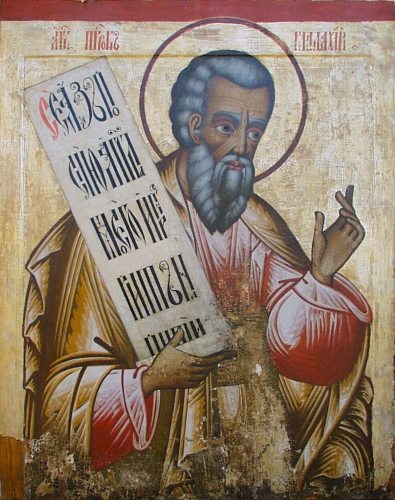 Prophet Malachi, Russian icon from first quarter of 18th cen.